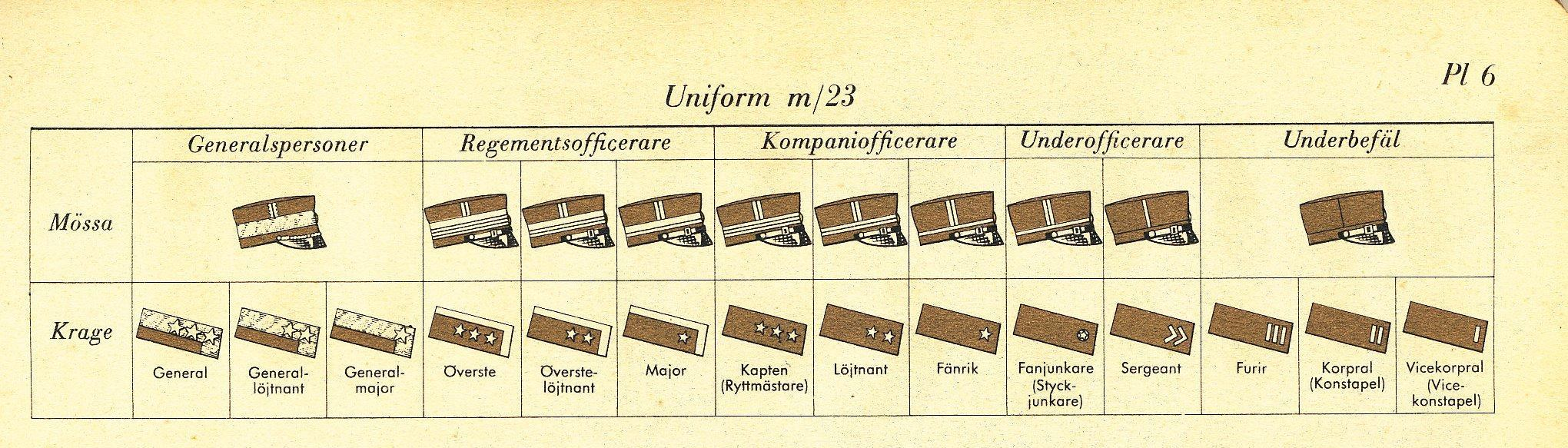 Rank insignia chart Swedish army uniform model 1923.